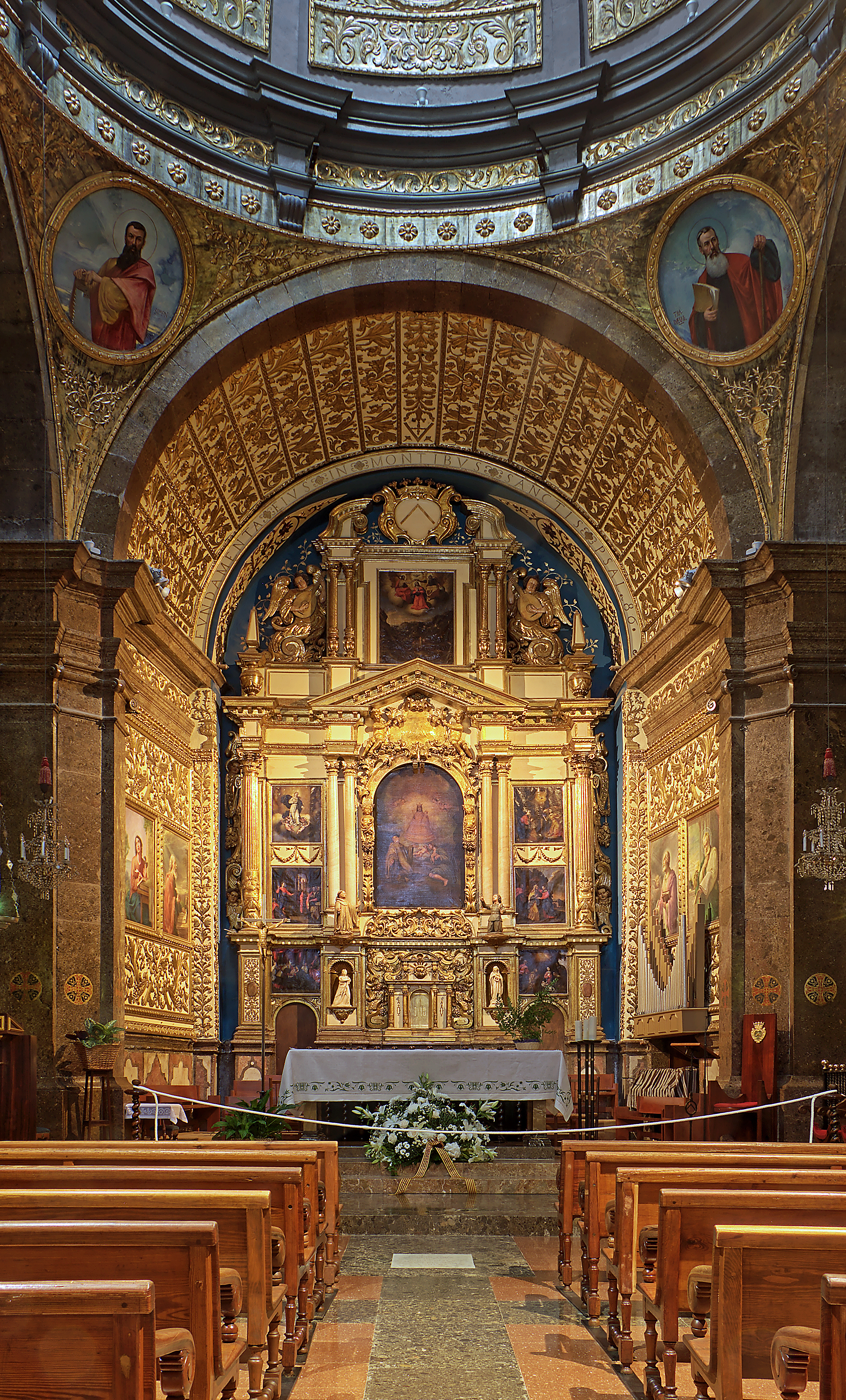 Chancel of the Basilica of Santuari de Lluc, Escorca, Majorca